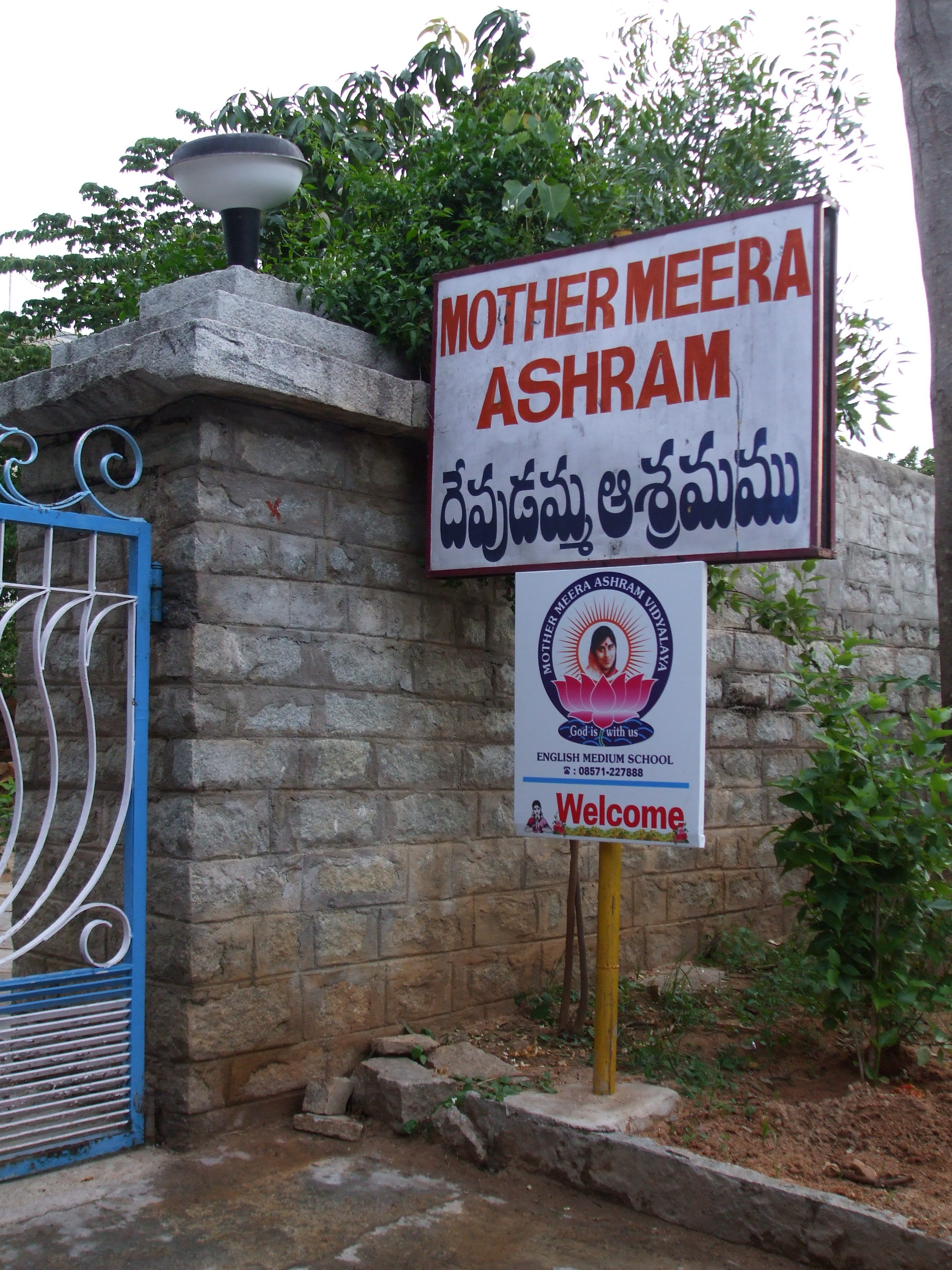 photo of Mother Meera ashram